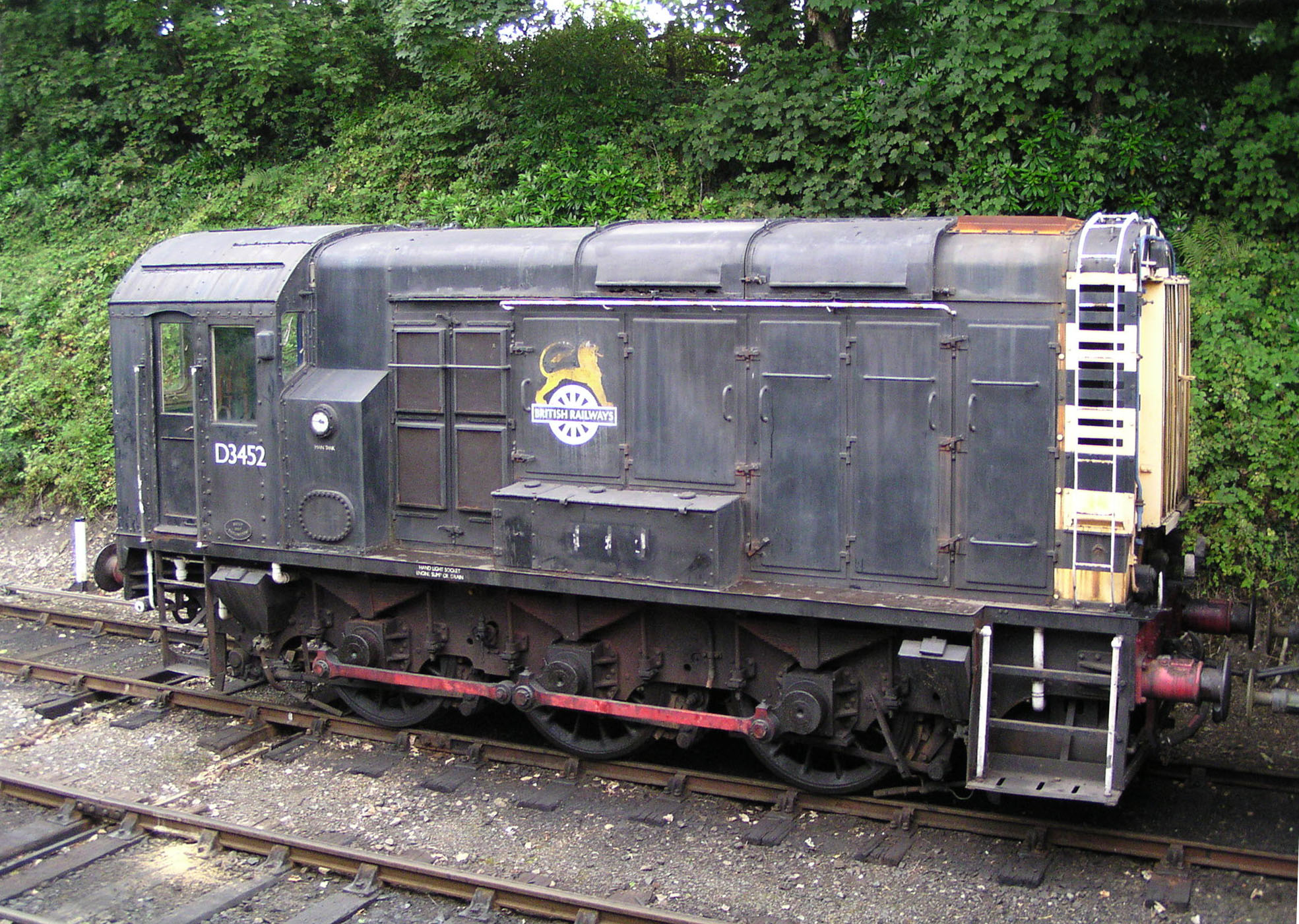 BR Class 10, no. D3452, at Bodmin General on 28th August 2003.